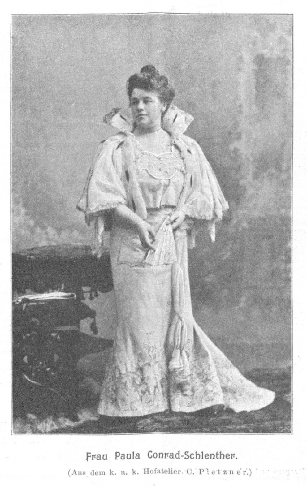 Portrait of Paula Conrad-Schentler (1860-1938), Austrian actress